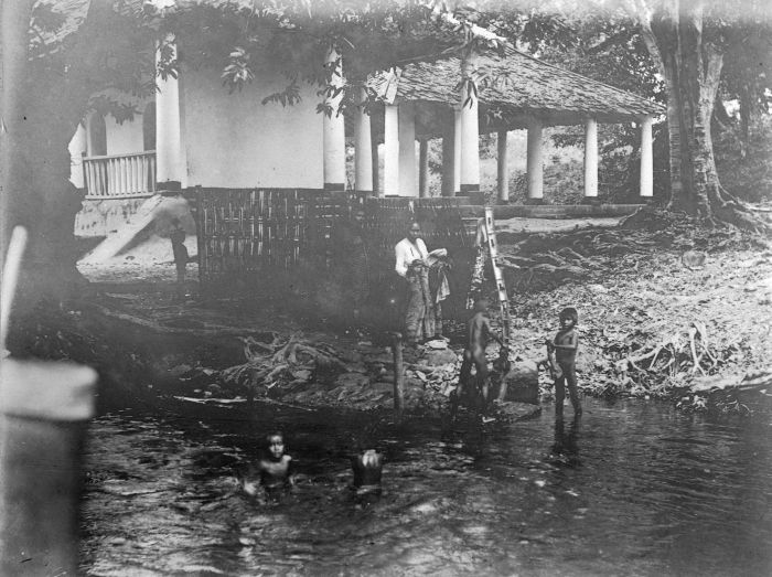 Photo. Bathing children in a bathhouse in Banjoe Biroe, Central Java.